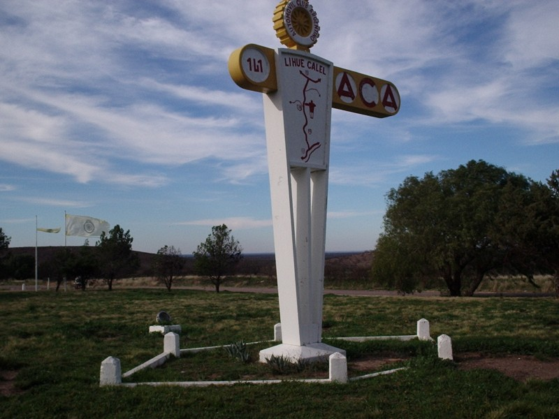 Automóvil Club Argentino sign